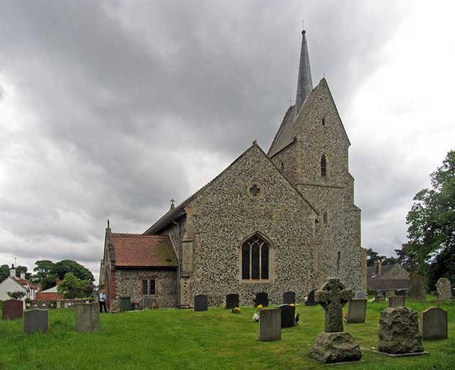 St Leonard's Church, Mundford, Norfolk